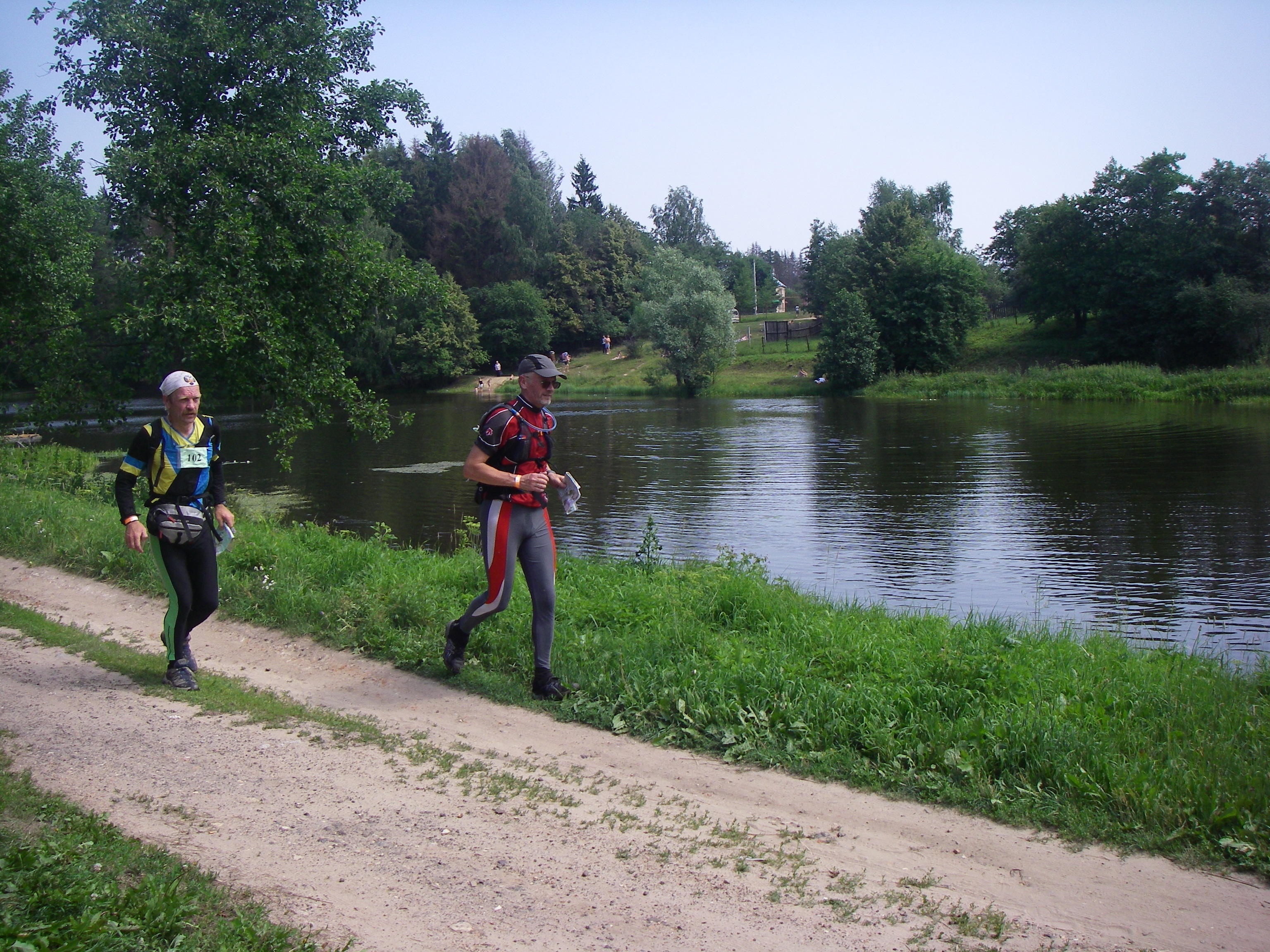 Team at course on «Moscow rogaine – 2011». 2 July 2011, Russia, Moscow Oblast, Shchyolkovsky District.